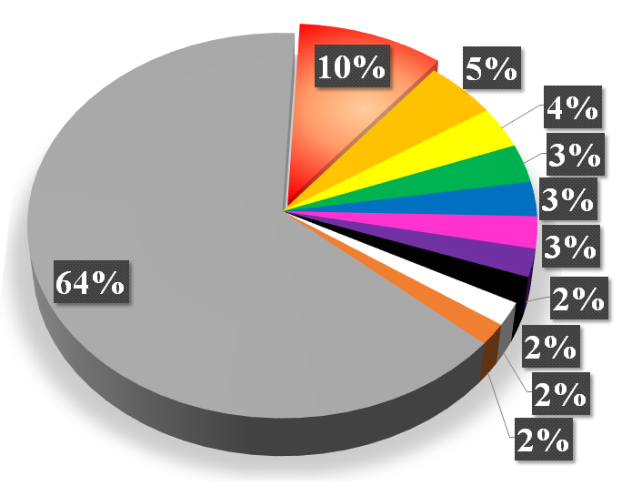 Pie chart of Japan's box office revenue in 2016, showing percentage of the top 10 films compared to the rest: Your Name: 23.56 billion yen Star Wars: The Force Awakens: 11.63 billion yen Shin Godzilla: 8.25 billion yen Zootopia: 7.63 billion yen Finding Dory: 6.83 billion yen Detective Conan: The Darkest Nightmare: 6.33 billion yen Yo-kai Watch: Soratobu Kujira to Double no Sekai no Daibōken da Nyan!: 5.53 billion yen One Piece Film Gold: 5.18 billion yen Nobunaga Concerto: 4.61 billion yen The Secret Life of Pets: 4.24 billion yen Others: 151.79 billion yen Total: 235.58 billion yen